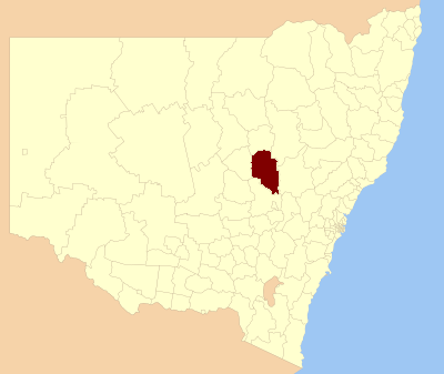 location of Western Plains Regional Council in New SOuth Wales